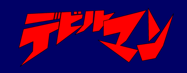 The logo of Devilman (デビルマン).